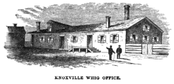 The office of the Knoxville Whig in Knoxville, Tennessee, USA, as it appeared in 1866. The Whig was a weekly newspaper published by William G. "Parson" Brownlow.